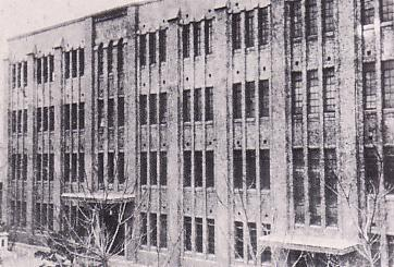 Keijo(Seoul) Dental Professional School